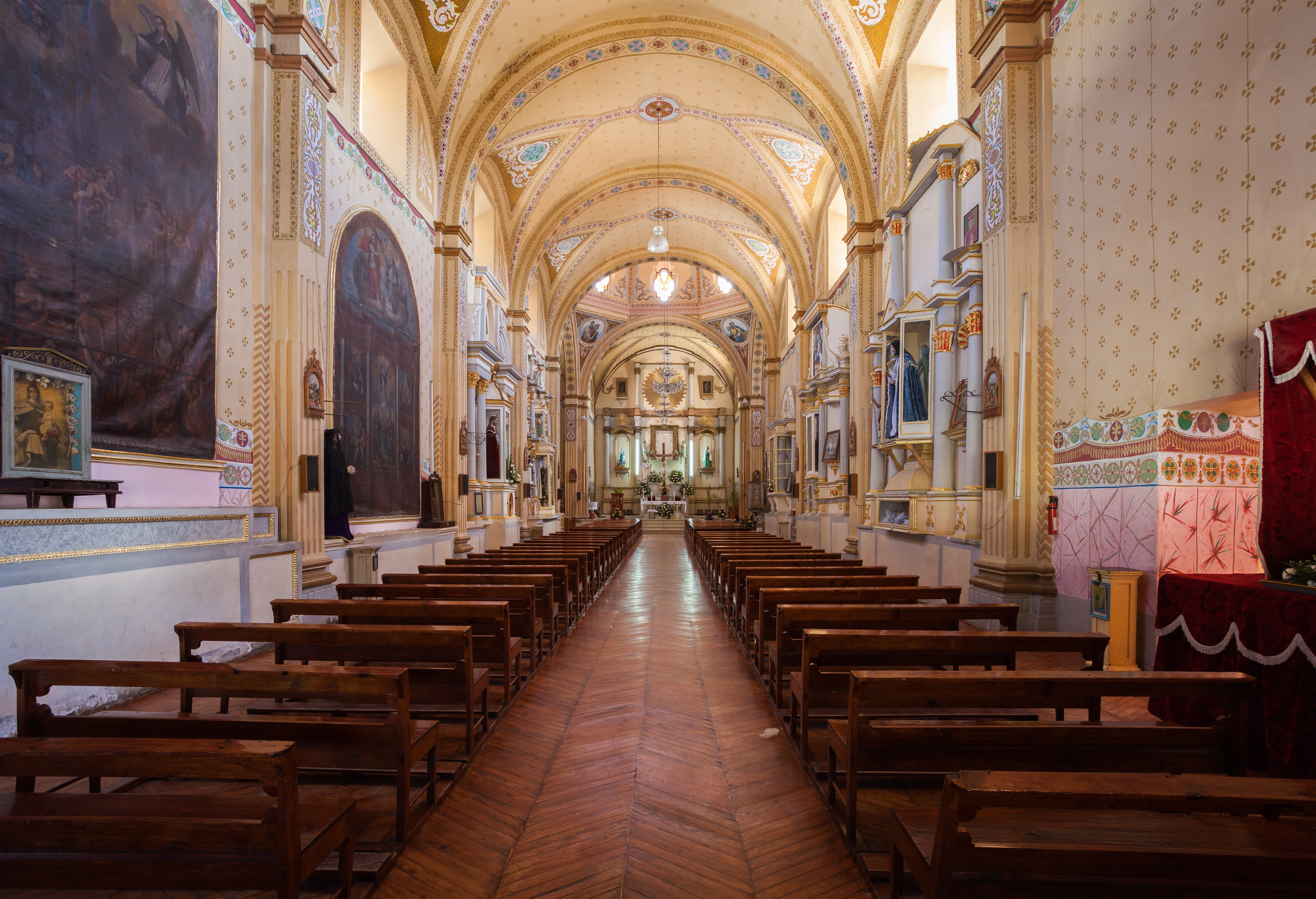 Hermitage of St Peter, Tepeyahualco, Puebla, Mexico